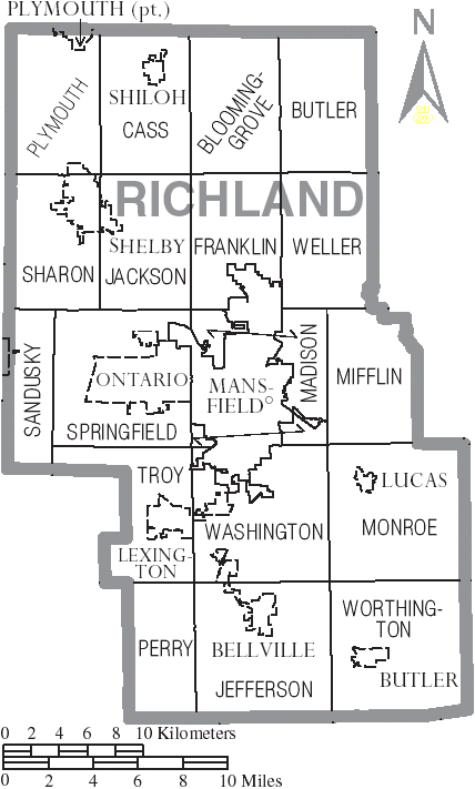 Map of Richland County, Ohio, United States with township and municipal boundaries